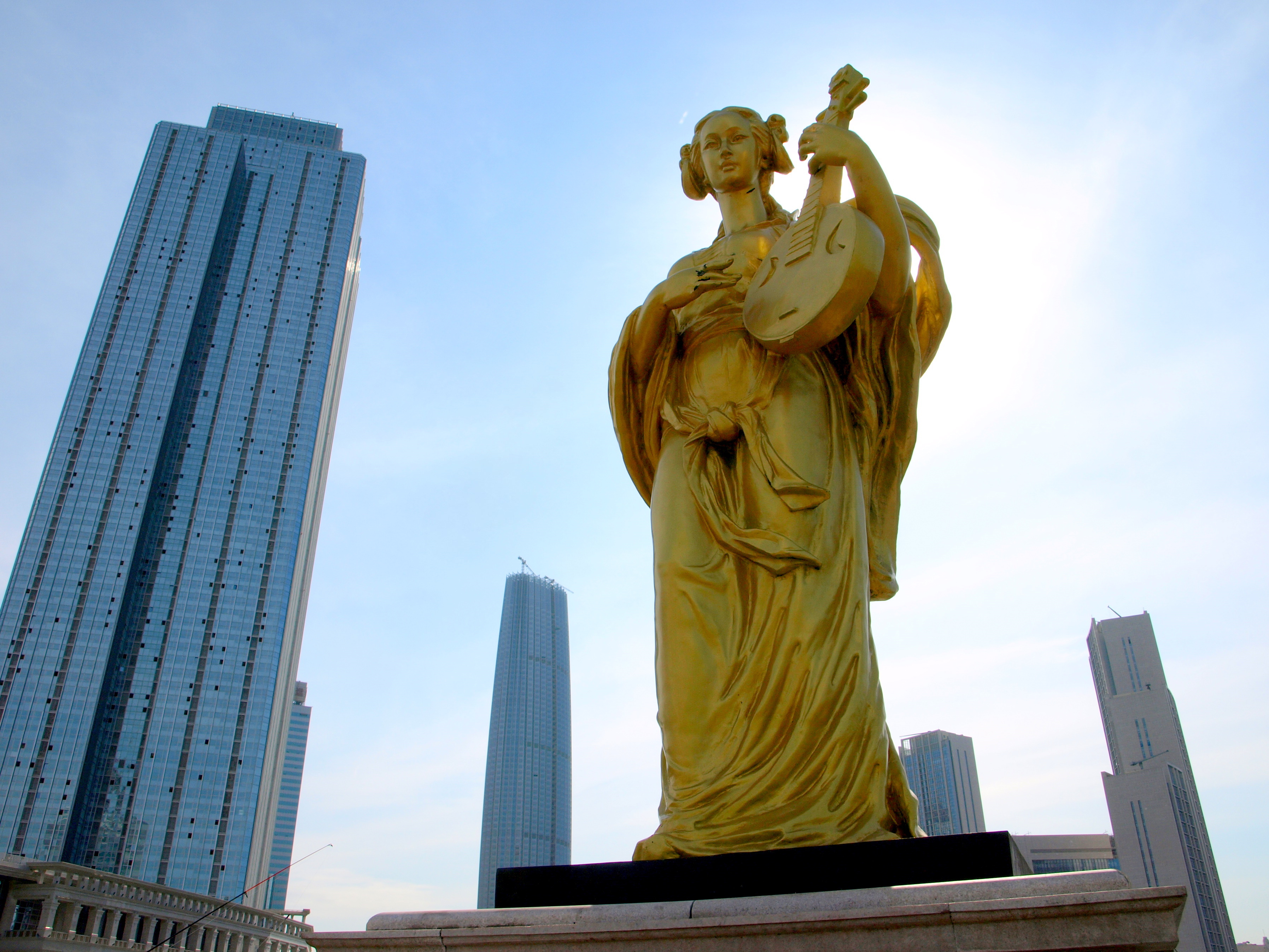 Tianjin is one of the six biggest cities in China and a prime engine in the Chinese economic miracle. It is a hypermodern skyscraper-studded city, and the historical districts are largely composed of European "concessions" from the late 19th/early 20th century. The statue is on a recent bridge leading to the Italian section, supposedly modelled on a Parisian bridge, though with the statues having Oriental features.